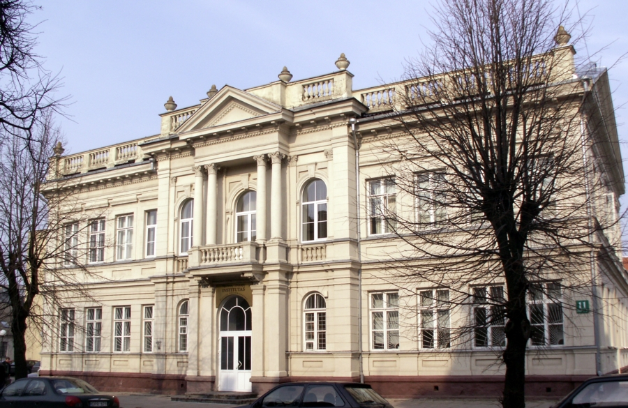 Former jews school in Šiauliai (1902), Lithuania